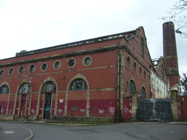 Last days of the old Shrubhill tram depot, near to Edinburgh, Great Britain. Just as the new Edinburgh trams (well, technically a 'light railway') are about to make their debut, this old derelict tram depot from 1898 is ready to bow out of history. Originally the tramway workshops, it was used until recently as a garage for Lothian Buses. An adjacent power station housed the engines required to haul the cable cars. NT2675 : Old power station, Macdonald Road